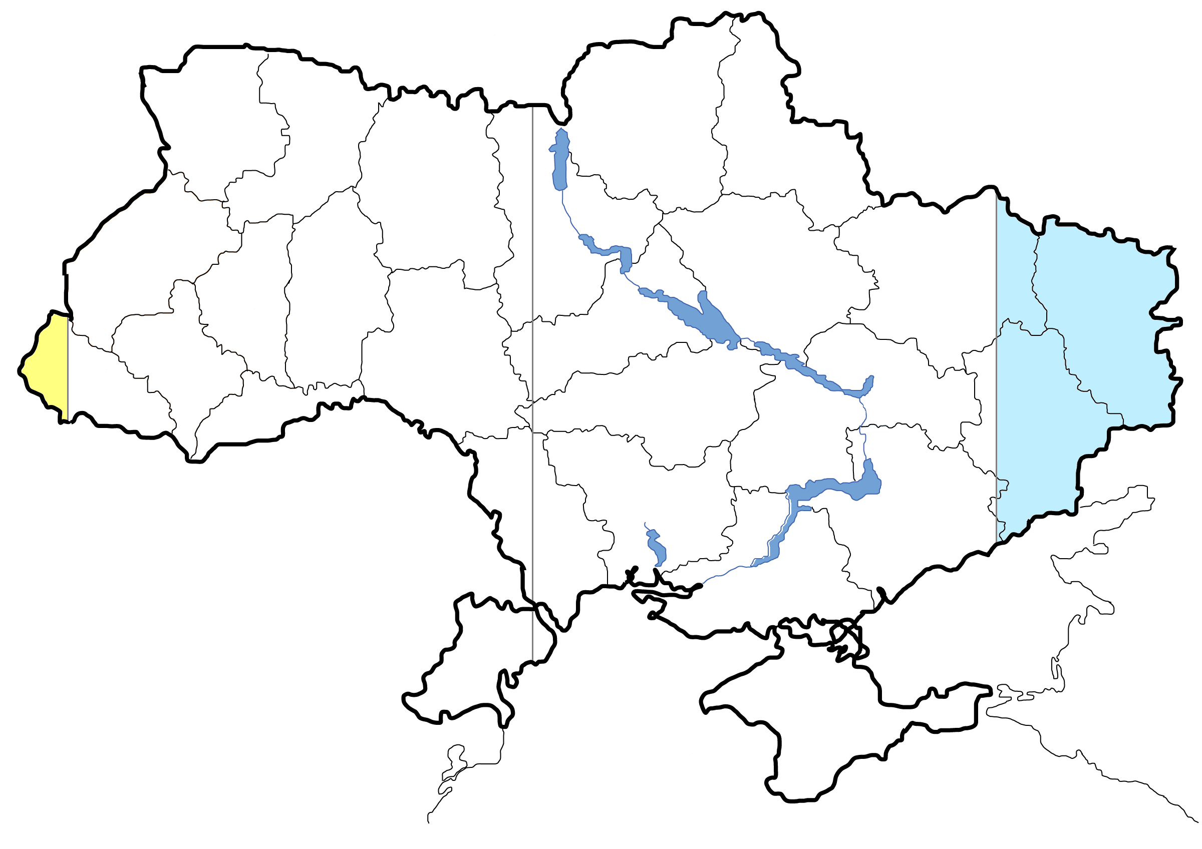 Location of Ukraine concerning timezones (borders as of 2013): (#ffff80) UTC+1 (#ffffff) UTC+2 (#bfefff) UTC+3